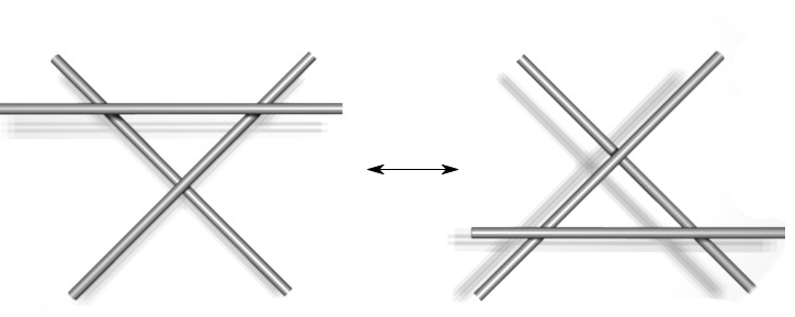 This picture illustrates the Reidemeister move of type III. The move appears as one of fundametal proceidures to deform knots without changing their equivalence class in knot theory (matheamtics). This type III move deals with ertically aligned three portions of the string. The picture shows the strings as 3D objects to illustrate the vertical arrangement.